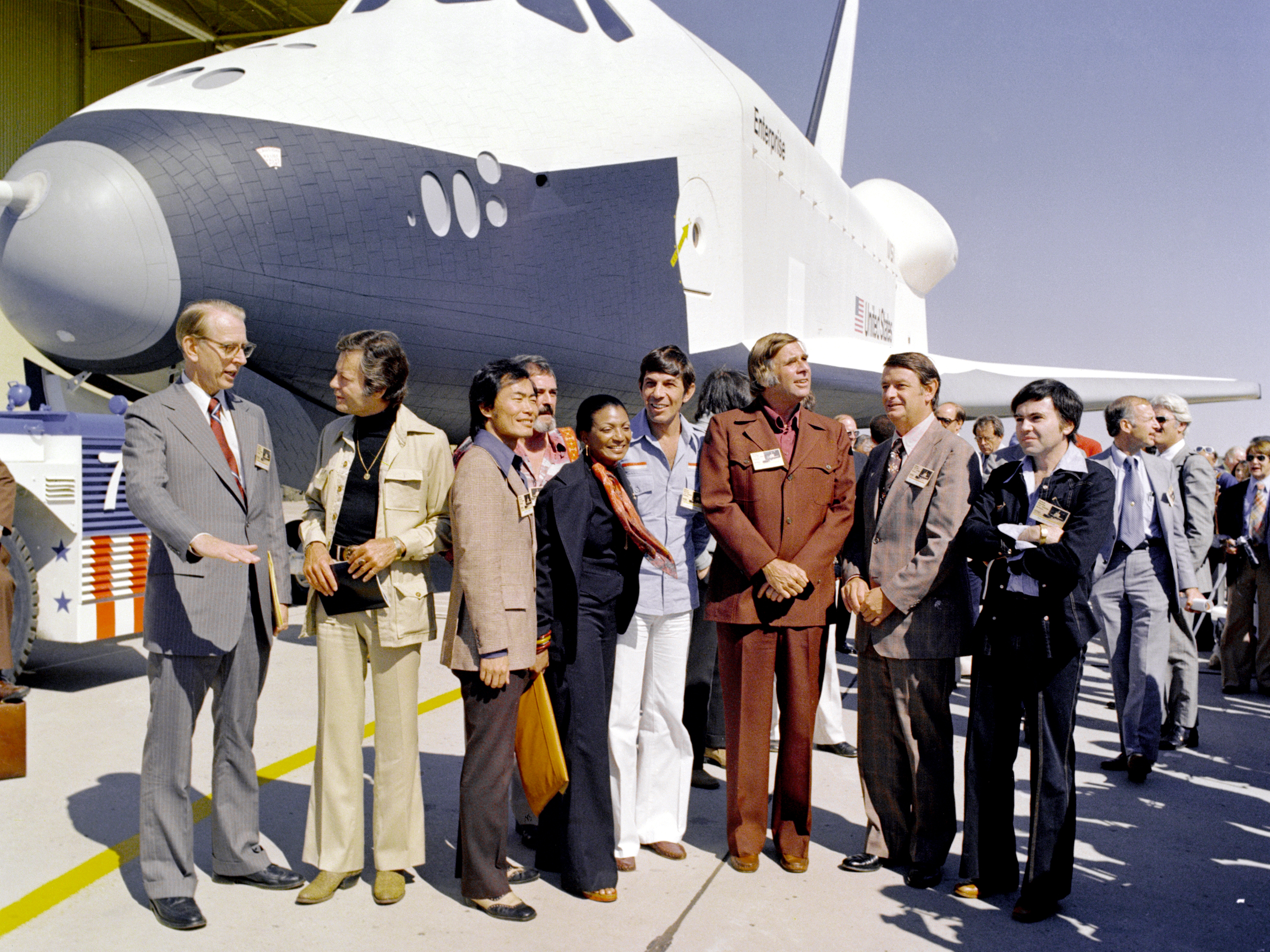 The Shuttle Enterprise rolls out of the Palmdale manufacturing facilities with Star Trek television cast members. From left to right they are: Dr. James C. Fletcher (NASA Administrator), DeForest Kelley (Dr. "Bones" McCoy), George Takei (Mr. Sulu), James Doohan (Chief Engineer Montgomery "Scotty" Scott), Nichelle Nichols (Lt. Uhura), Leonard Nimoy (the indefatigable Mr. Spock), Gene Roddenberry (The Great Bird of the Galaxy), Democratic Congressman Don Fuqua, and Walter Koenig (Ensign Pavel Chekov).